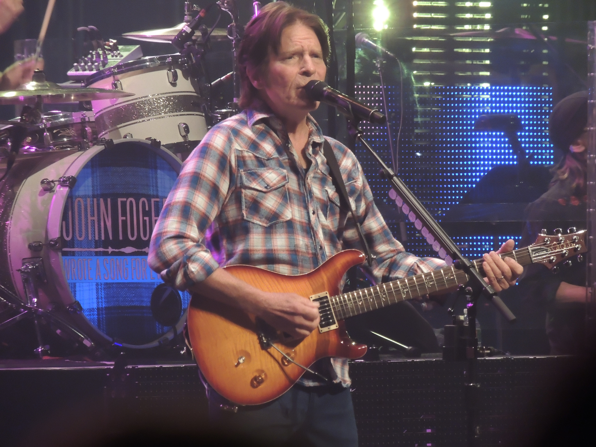 John Fogerty Beacon Theater 2013-11-13